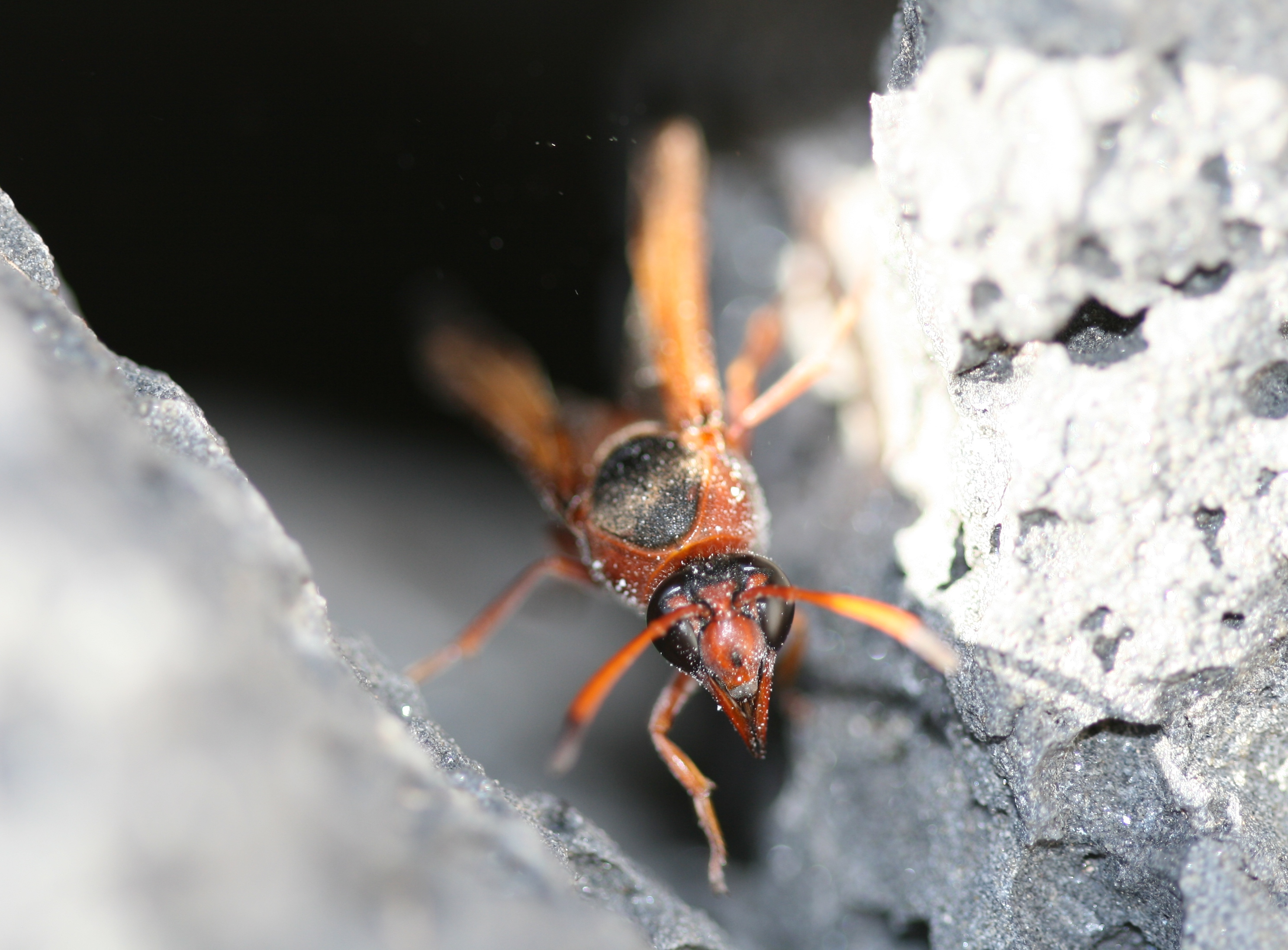 a Eumeninine wasp. Photographed on Lanzarote, Spain.